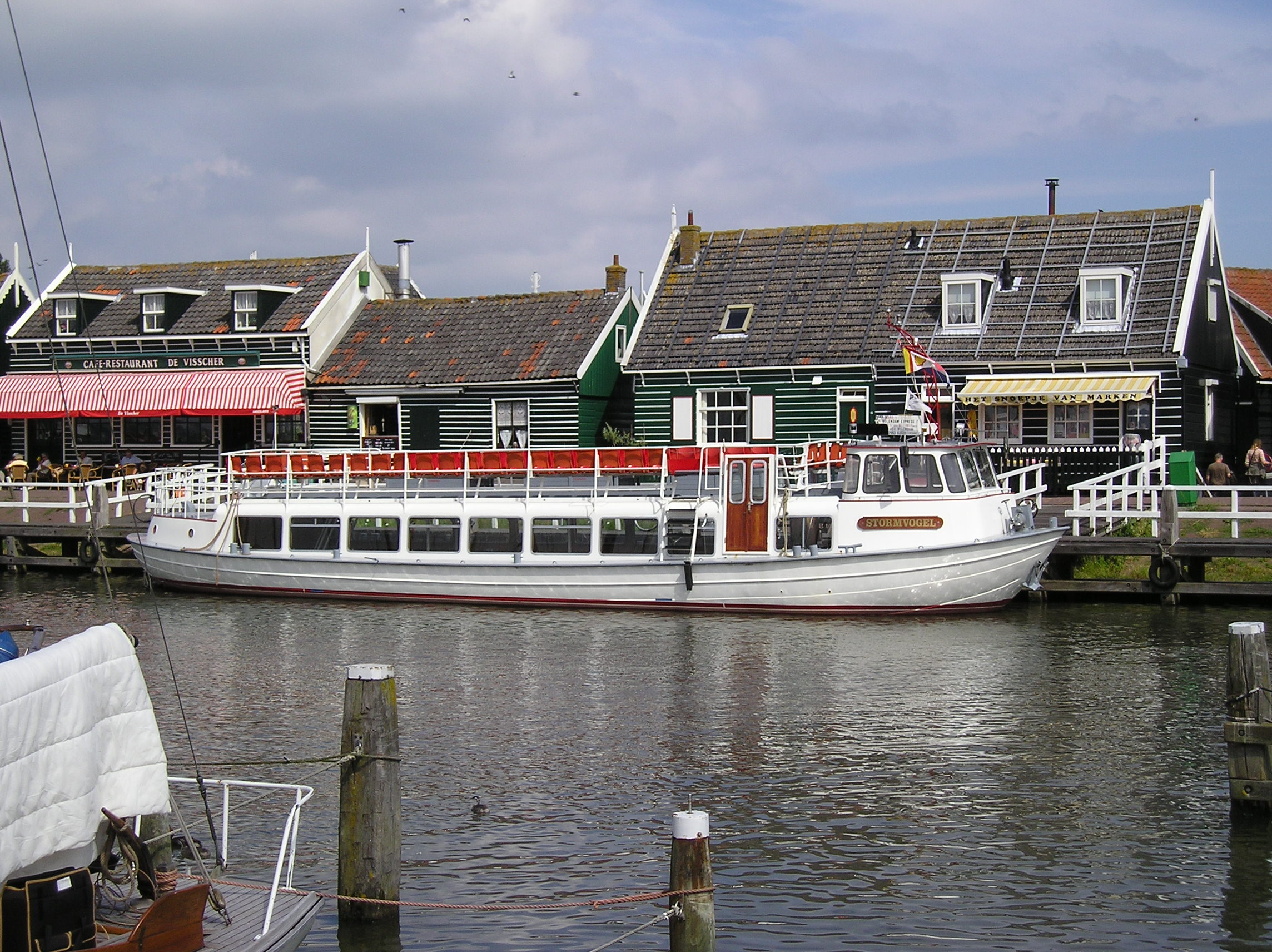 MS Stormvogel. This ship carries people between two Dutch villages: Marken en Volendam (Marken is located on the island in the Markermeer lake). The ship is operated by Veerman en Co company. This company operates Marken-Volendam passenger line since 1933. Some specification of MS Stormvogel: length: 21.15 meters breadth: 4.45 meters highness: 3.45 meters draught: 1.49 meter Passenger capacity: lower deck: max 75 upper (open) deck: max 80 This picture was taken in Marken, on July 11, 2006